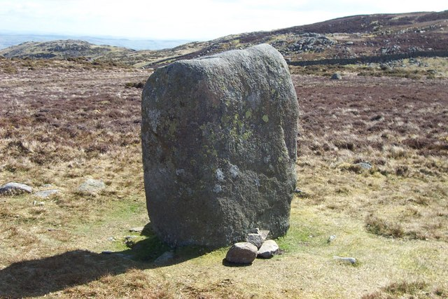 Maen Penddu Standing Stone. The Megalithic monument known as Maen Penddu Standing Stone at SH 73900 73580.